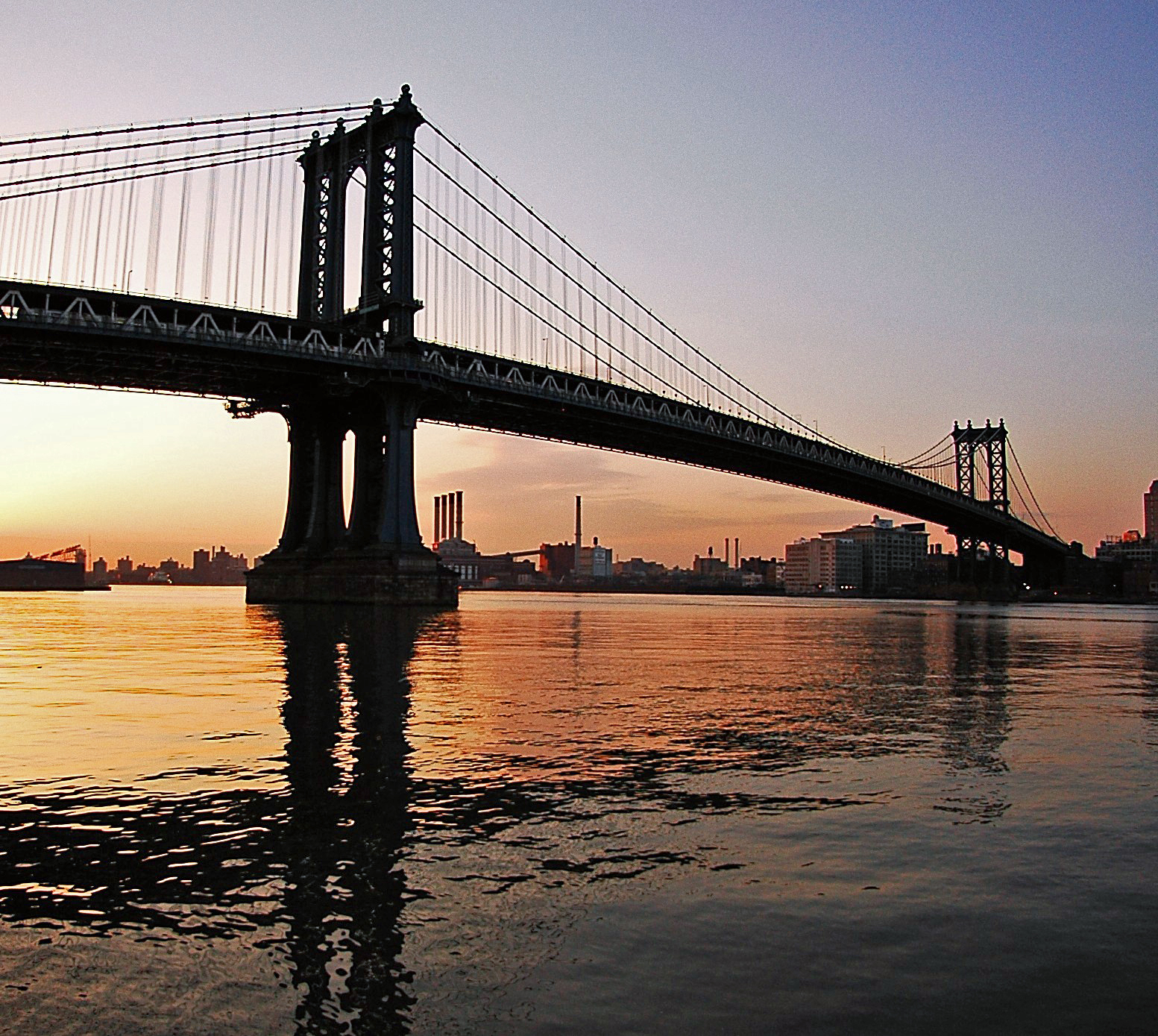 Manhattan Bridge at sunrise